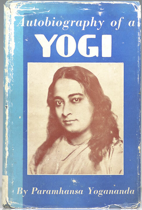 "Autobiography of a Yogi" the first edition was in 1946. Scan of the original cover in better resolution.